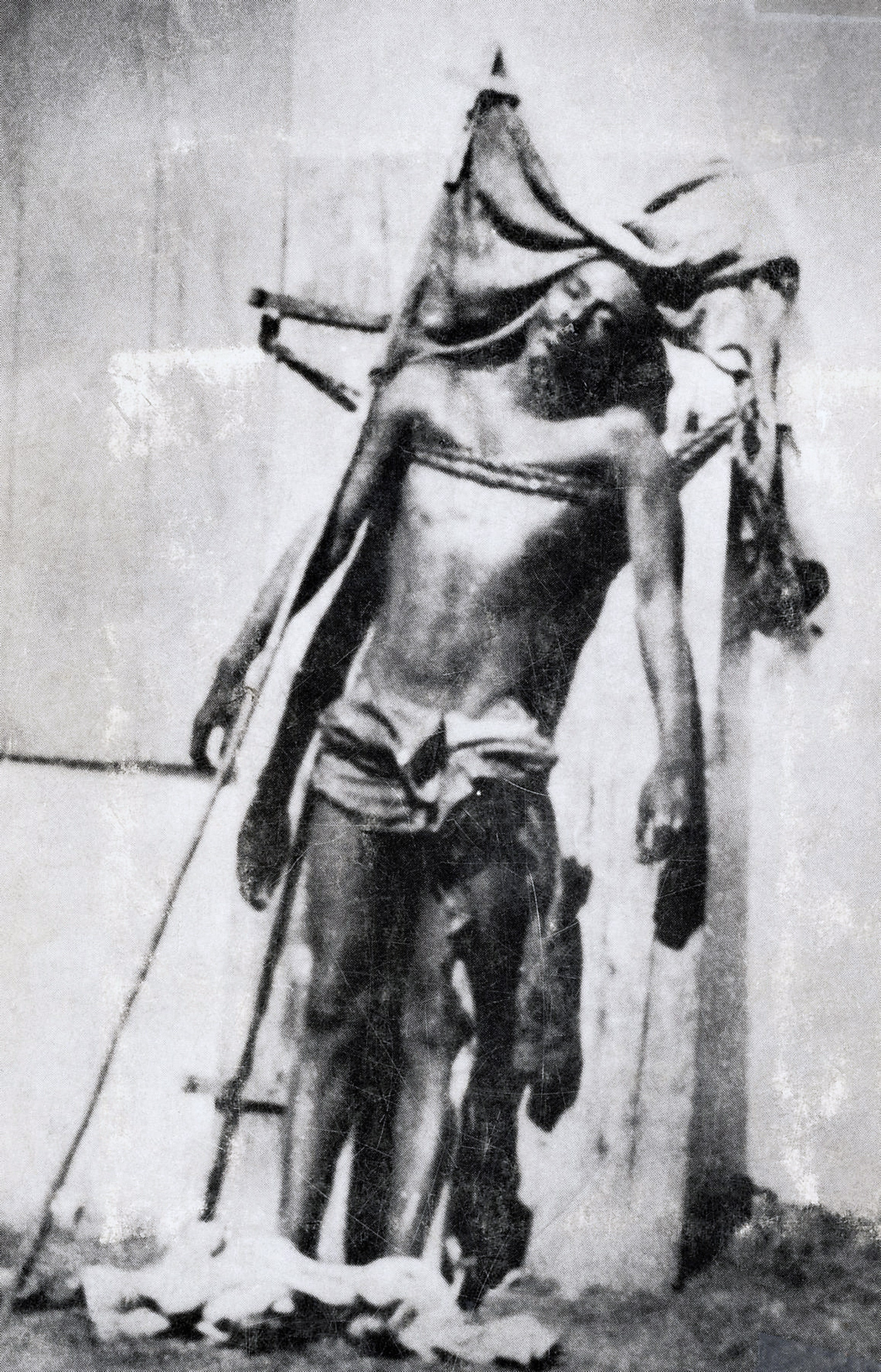 Body of Charlemagne Péralte, whose body was nailed up to a door in the town of Hinche following his killing by members of the USMC. Image taken by US forces and published to demoralise Péralte's remaining followers.